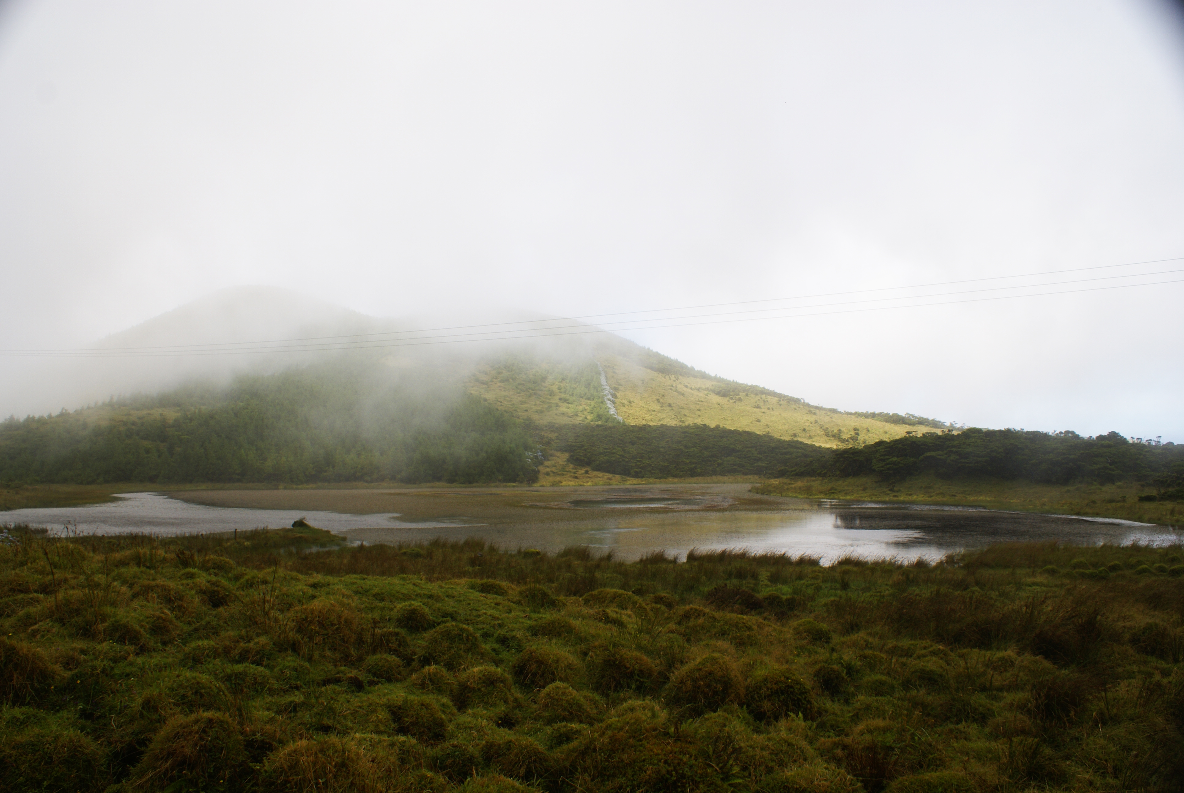 Lagoa da Barreira, a partial vista from the fog, municipality of São Roque do Pico, island of Pico, Azores (Portugal)